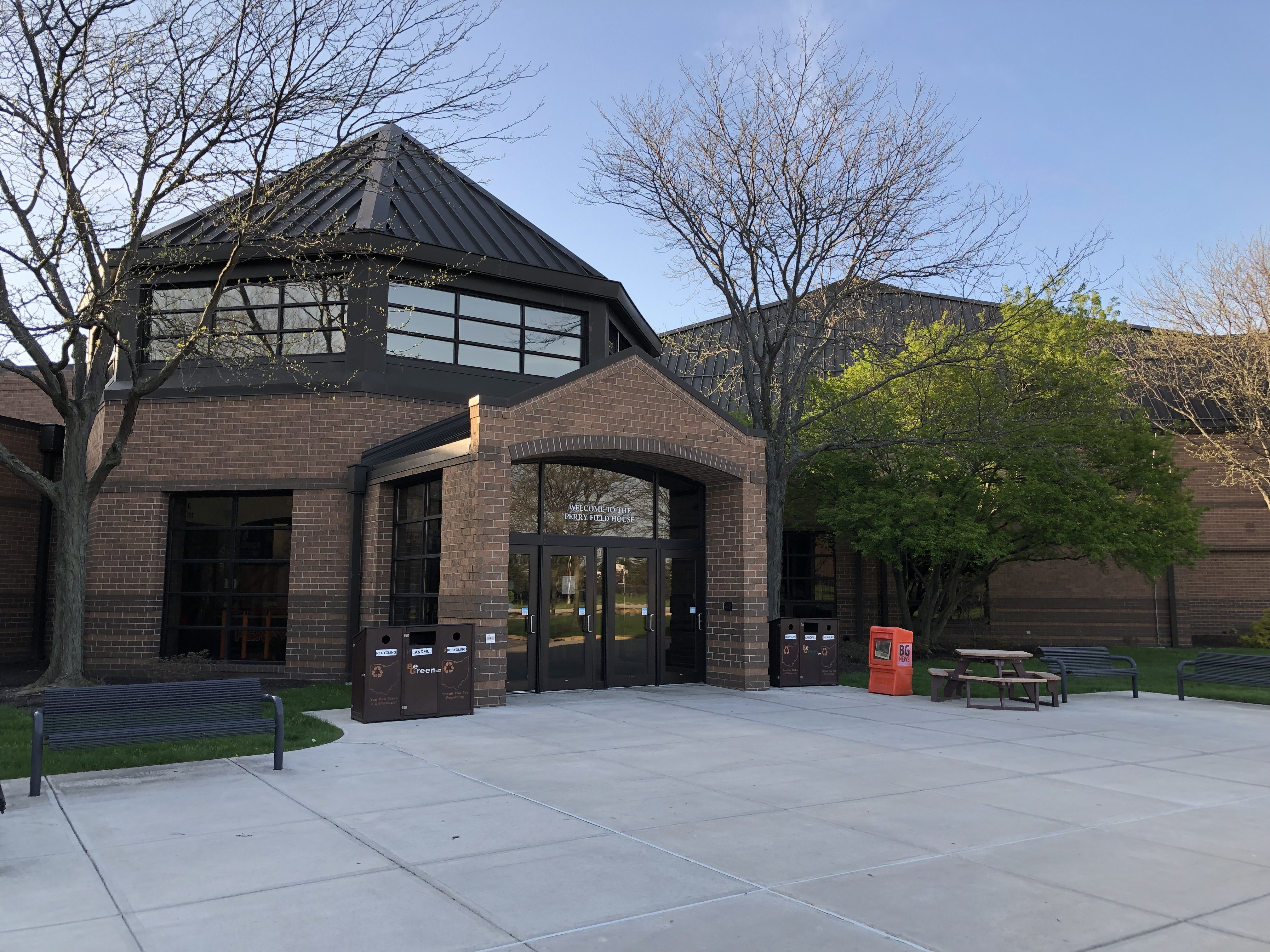 Perry Field House at BGSU